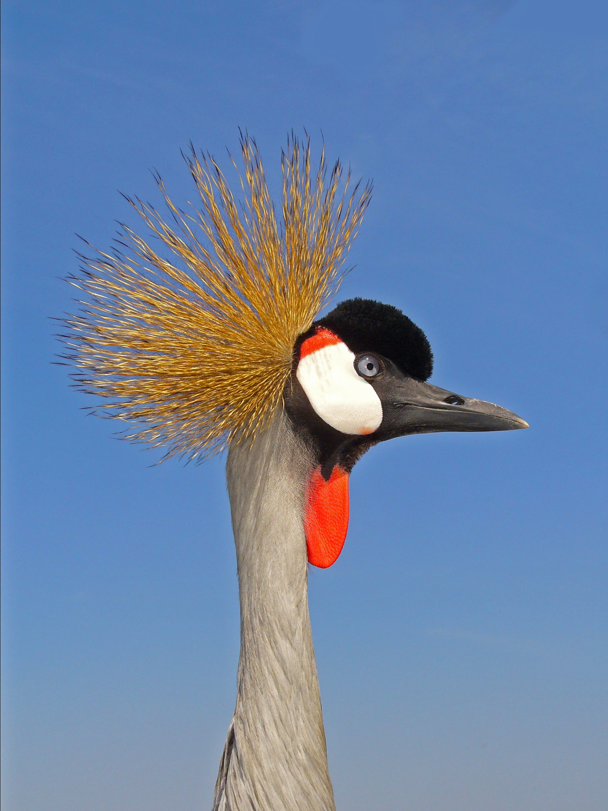 Balearica regulorum, Gruidae, Grey Crowned Crane; Réserve africaine de Sigean, Sigean, France